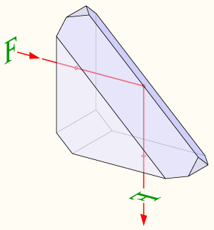 An Amici roof prism. By DrBob